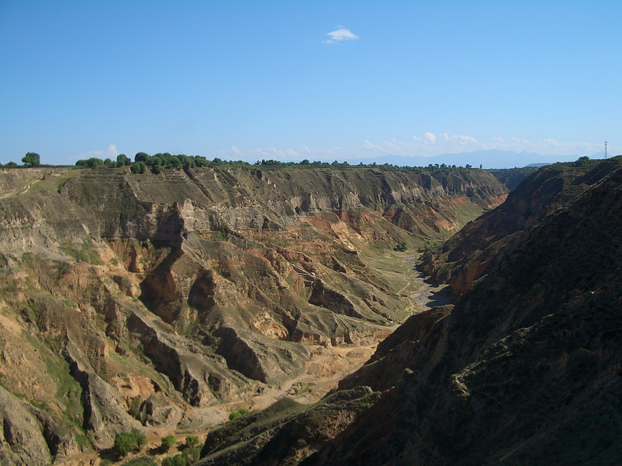 A canyon formed in the soft loess soil by a small stream that flows from the west into the Daxia He River, in the northeastern part of Linxia County (probably, Xihe Township).